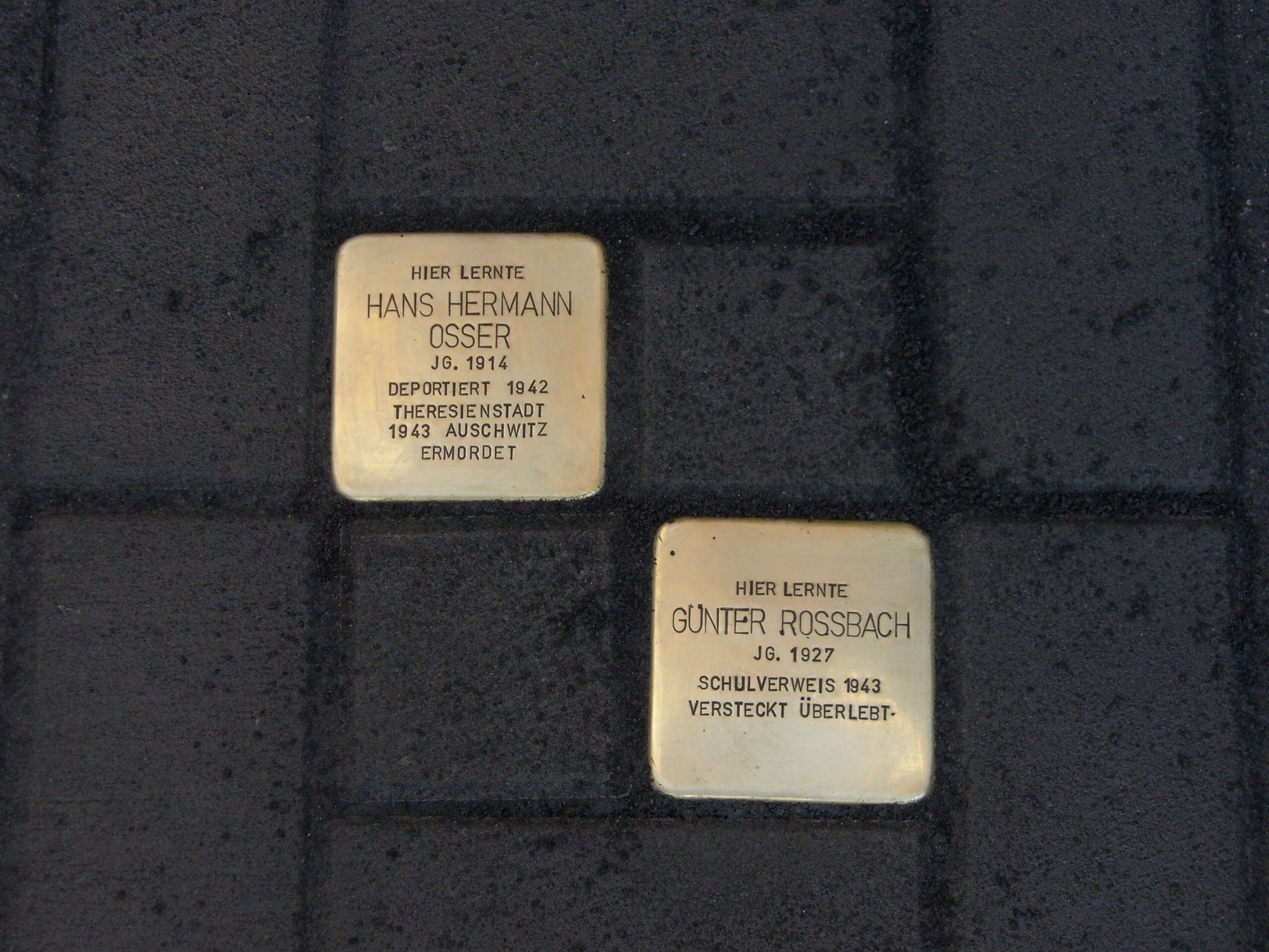 Stolpersteine ​​Leonardo da Vinci Gymnasium Köln-Nippes Published on 22.11.2017